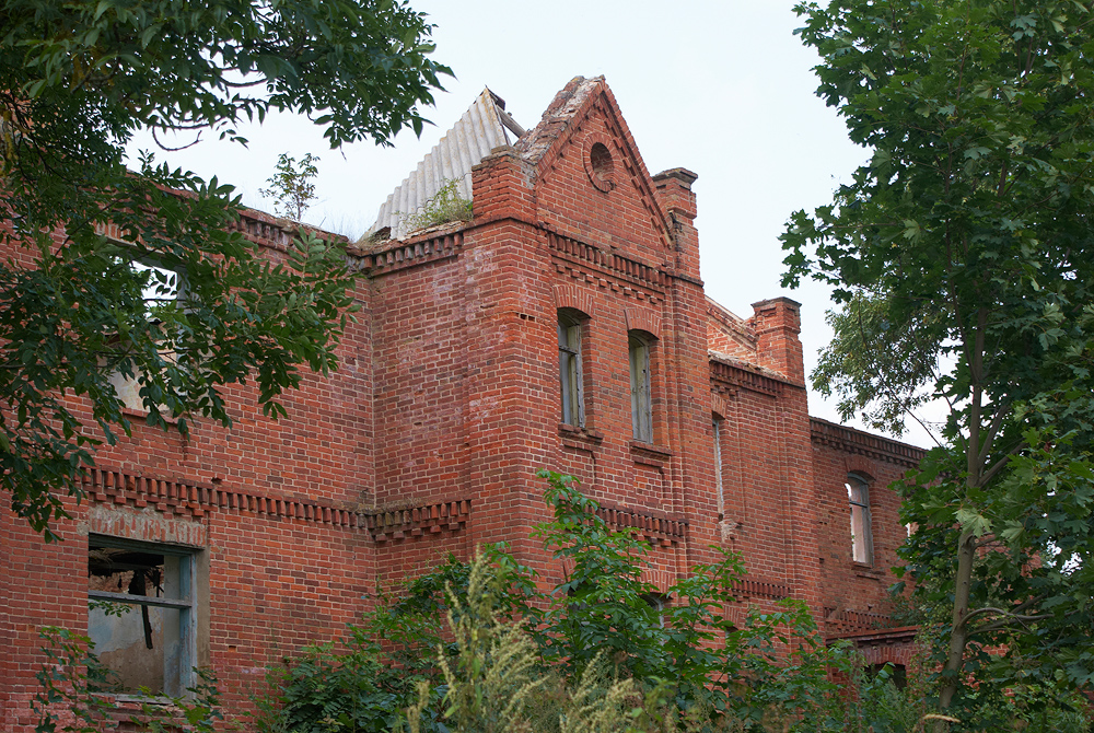 Palace of Lashkevichy in village Stayki of Baranavichy district, Belarus